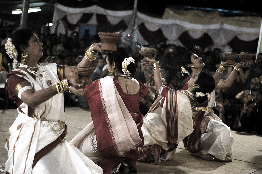 Maha Navami is the penultimate day of Durga Puja. It is on the ninth day of the Shukla Paksha (waxing phase of Moon) in the month of Aswin. The rituals culminate with the Aarati, a devotional offering where lamps are lit amid great clouds of incense. A great sense of festivity can be sensed around the Puja pandals and the Dhunuchi Naach is performed to the intoxicating beats of the "Dhaks". It is the grand finale before the "Visarjan" or immersion on the next day of Vijaya Dasami.